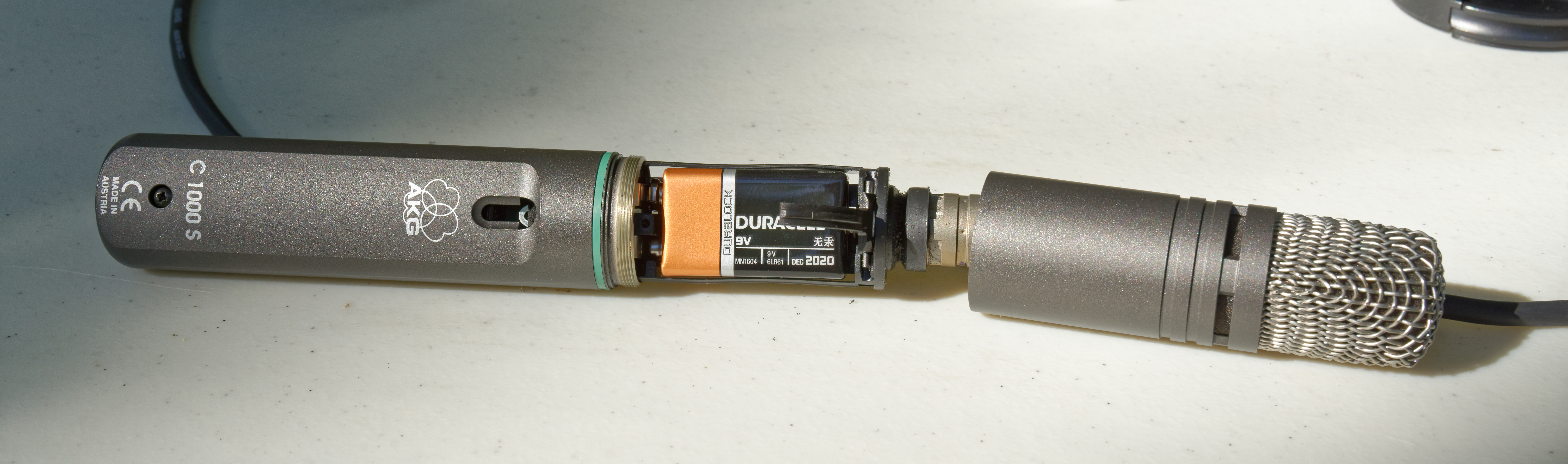 AKG C1000S cardioid condenser microphone, open to show its 9-volt battery that can be used in lieu of phantom power